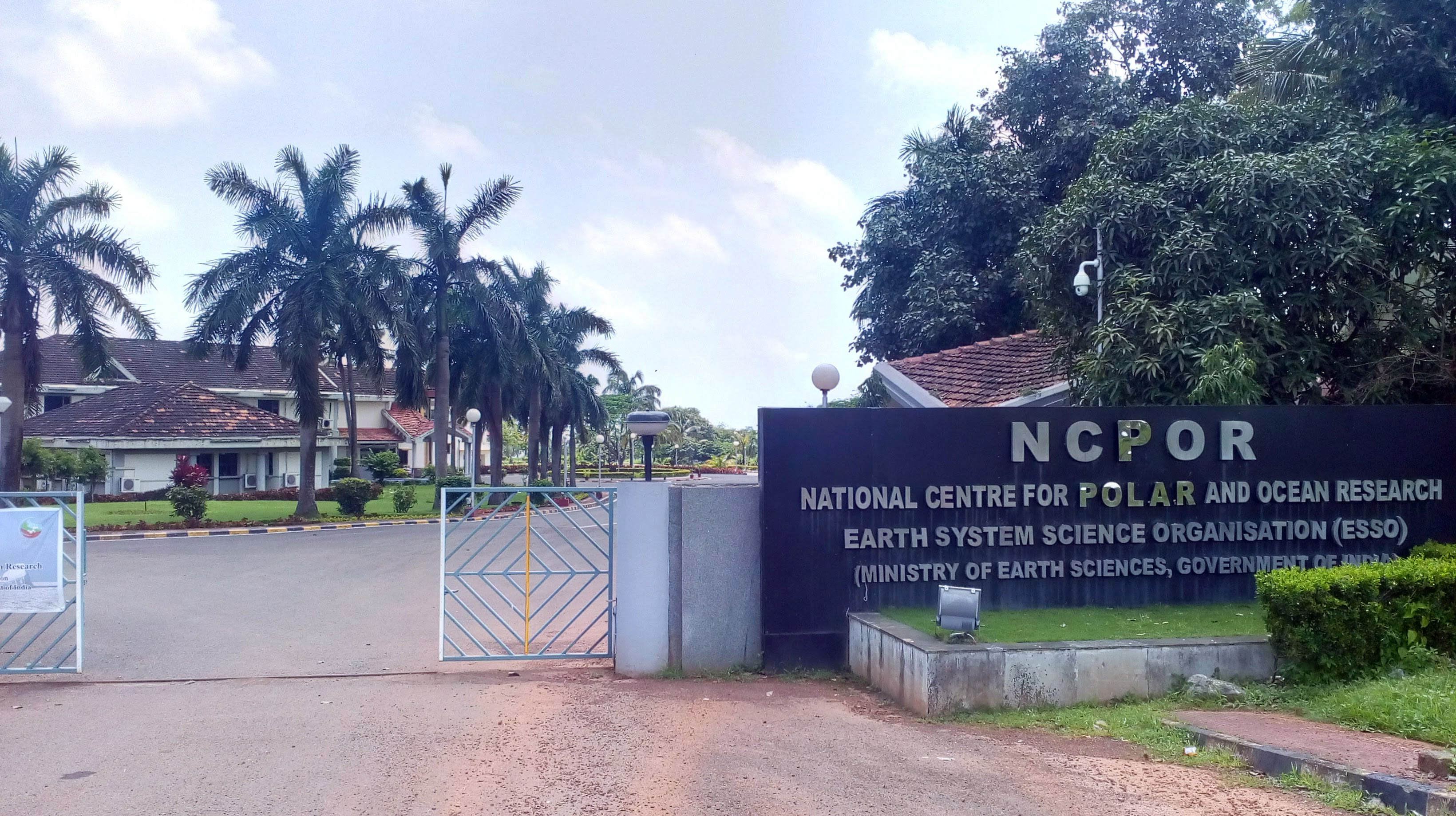 NCPOR, is a research Institute located in Vasco, Goa